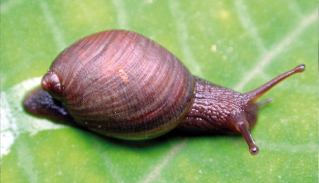 Photo of Amphibulima patula dominicensis.